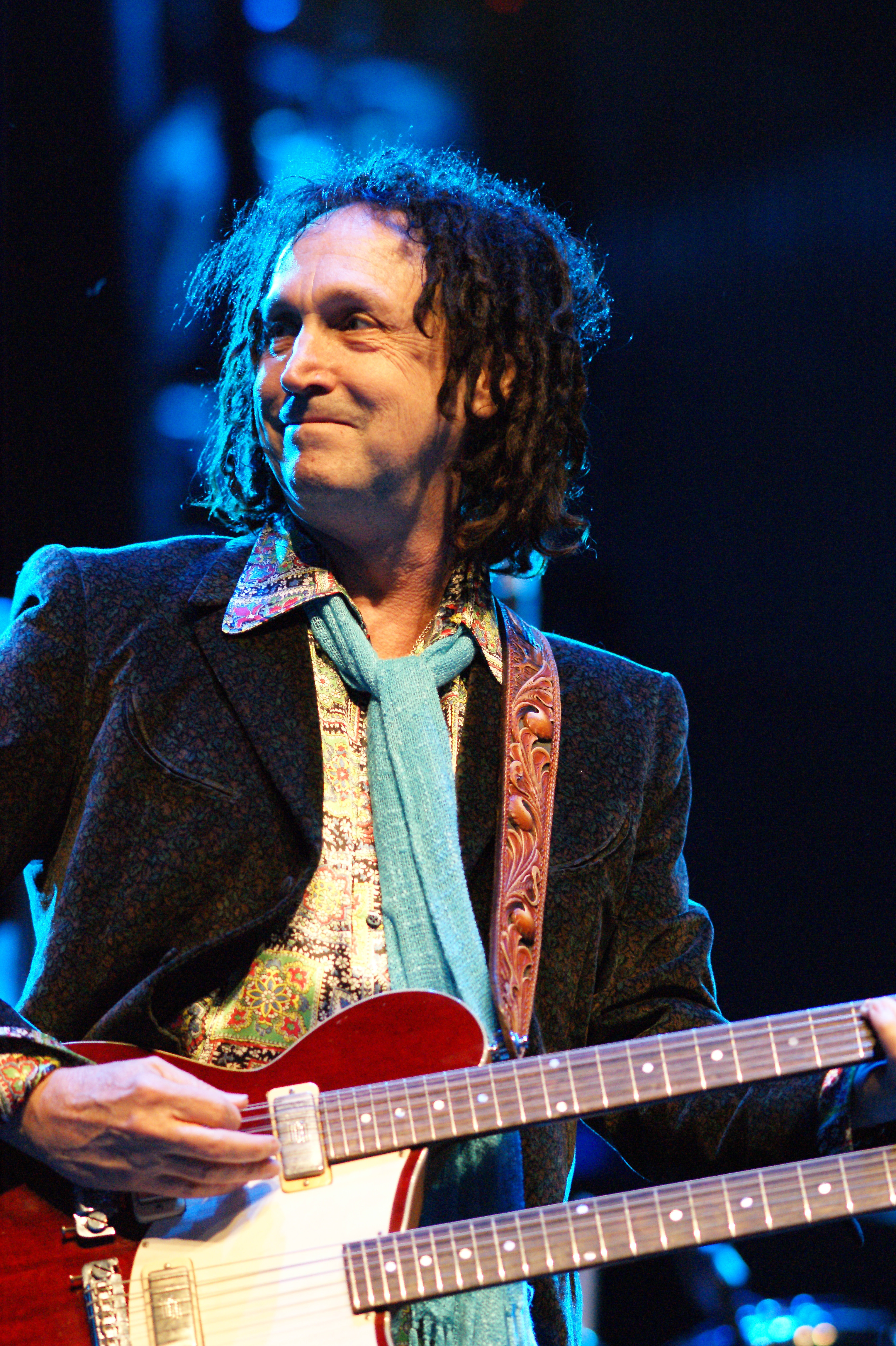 Mike Campbell, guitarist for "Tom Petty & the Heartbreakers"